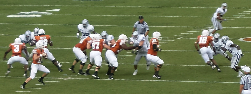 Colt McCoy drops back to pass against KSU 2007